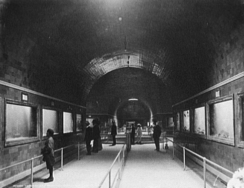 Interior of aquarium, Belle Isle, Detroit, Mich.